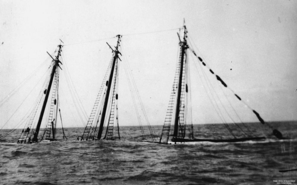 Director II (ship) Director II almost fully submerged after getting stuck near Gladstone on 18 October 1940.